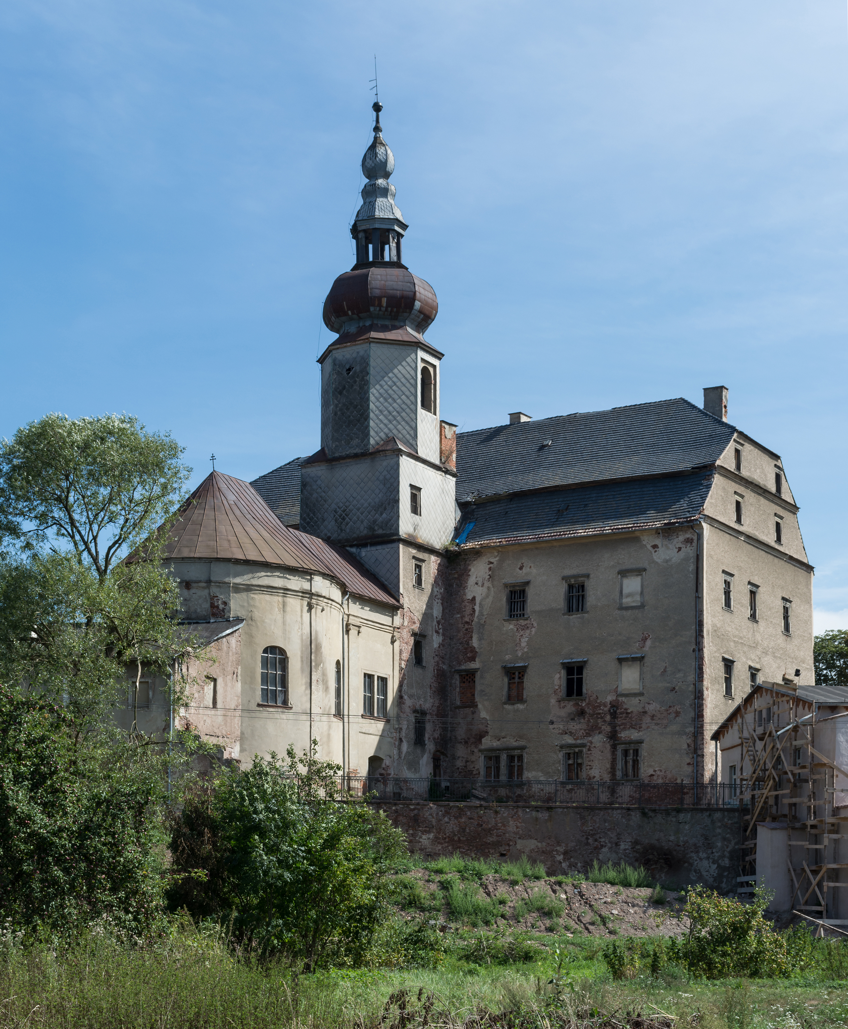 Sarny Palace